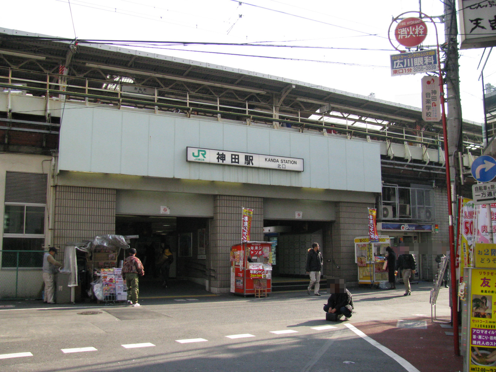 JR Kanda station on JR Tohoku main line.